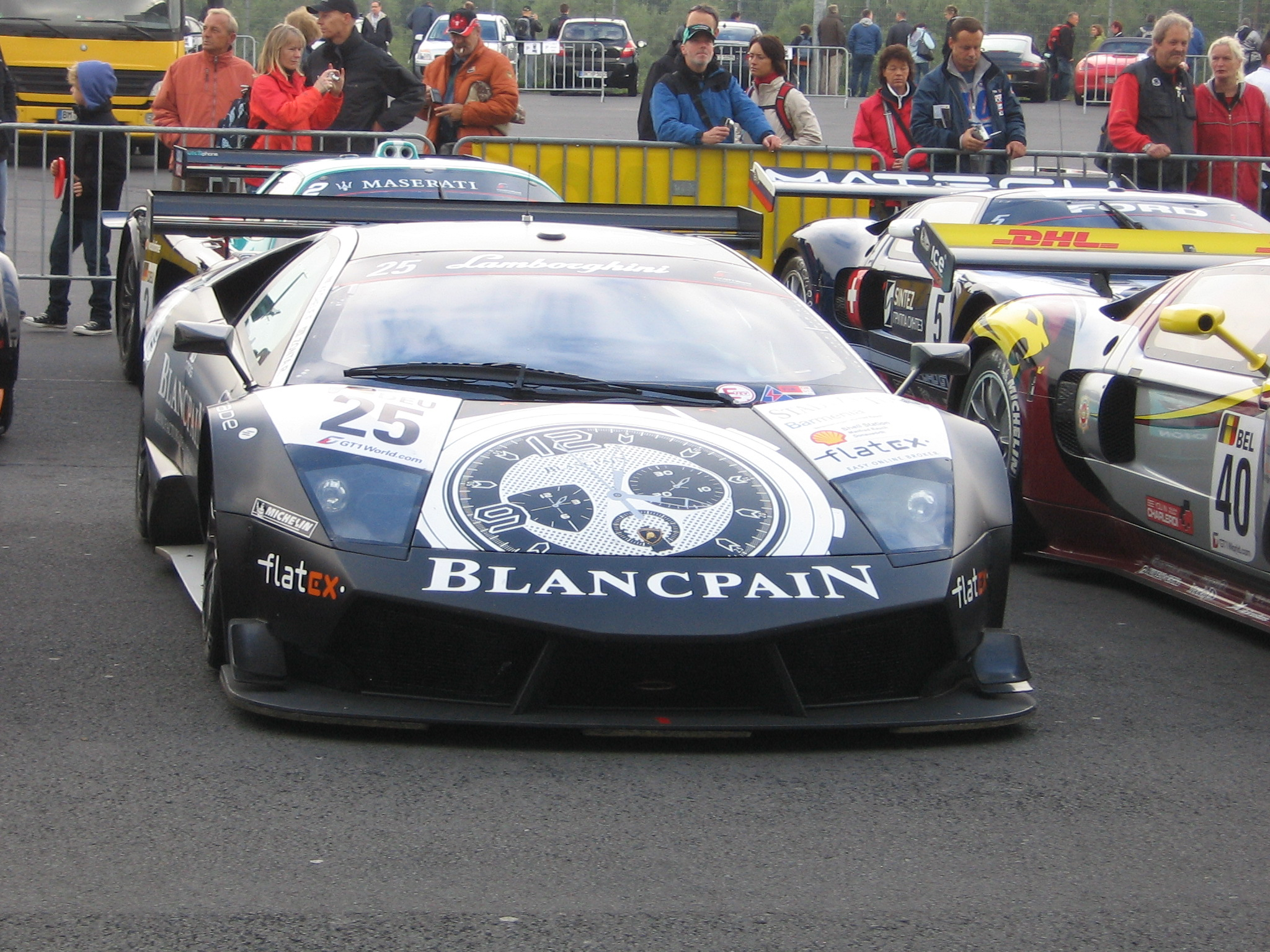 The FIA GT 1 World Championship Lamborghini Murcielago Nr.25